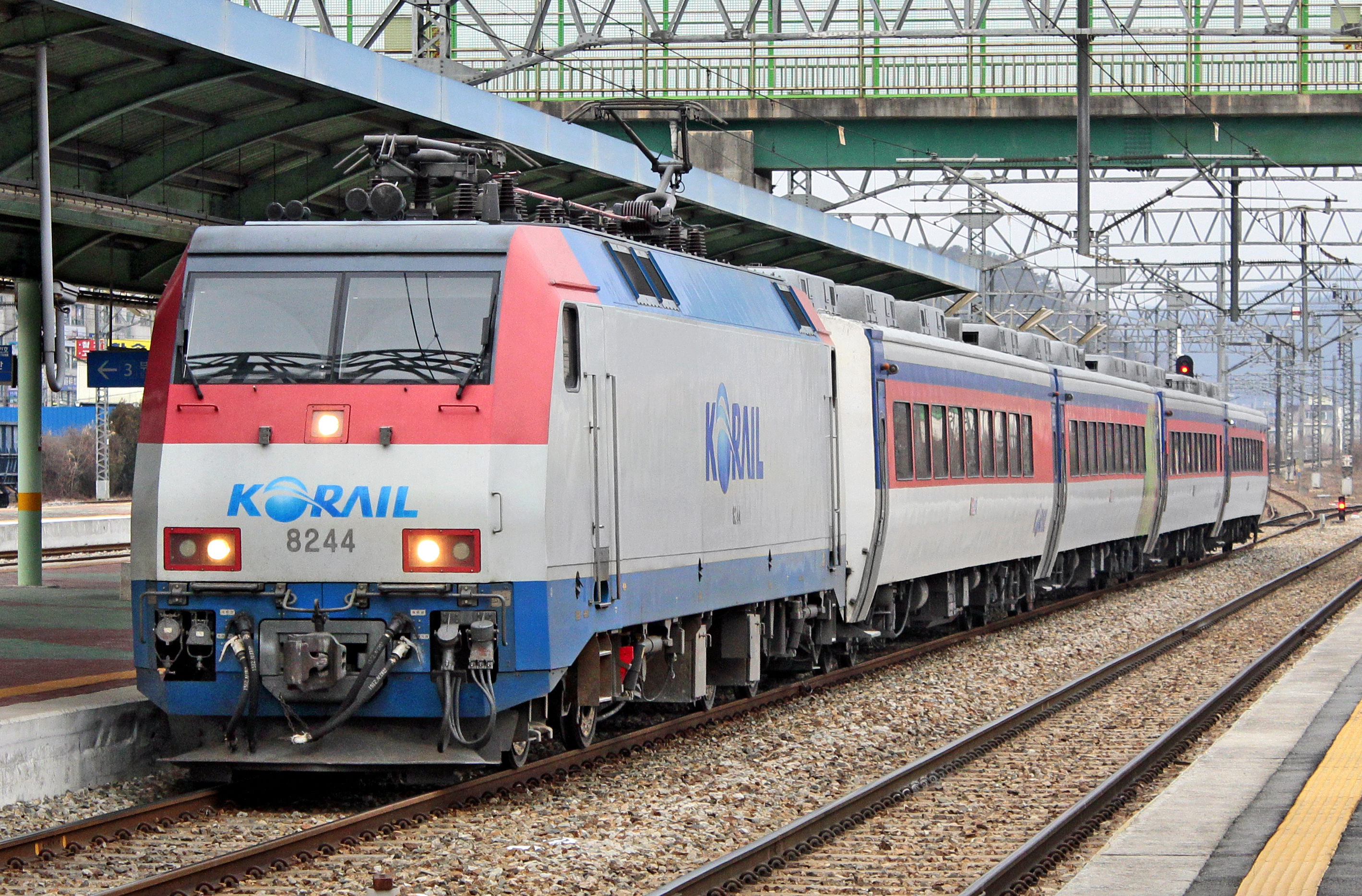 Southbound @Jochiwon Station